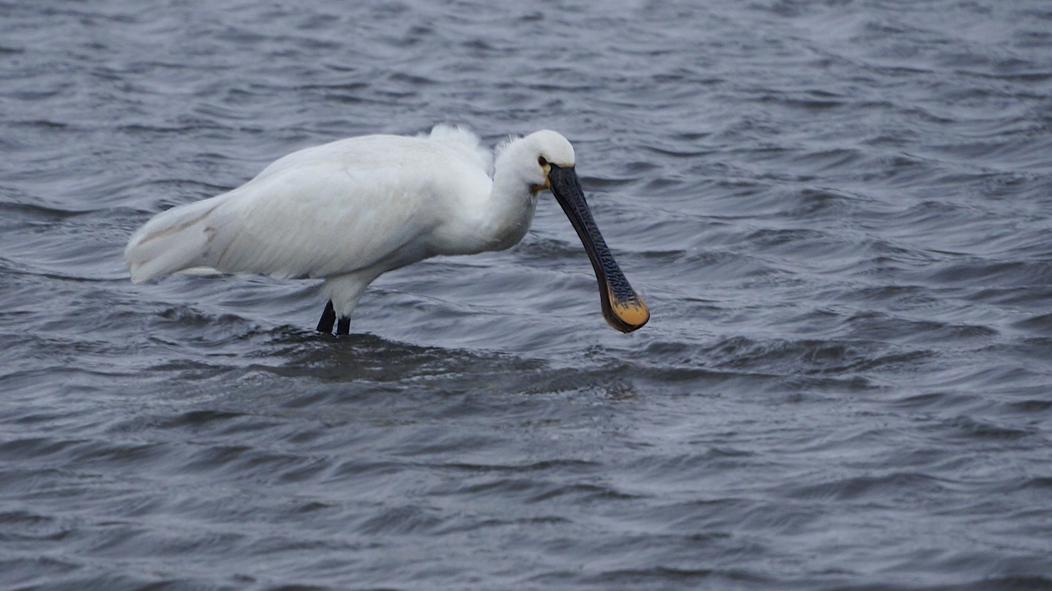 Just one bird feeding there today.